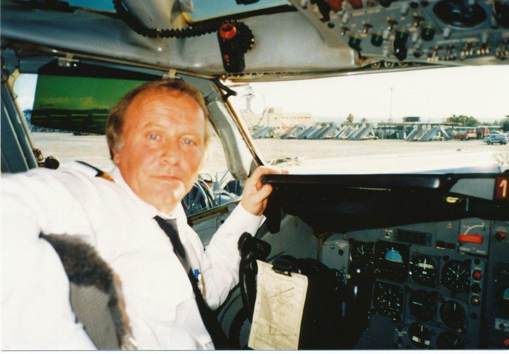 Have just tried. But picture didn't come up on danisk wiki. In 1984 this man (my father, but that's not the issue) was involved in an incident om Copenhagen airport Kastrup, of which I've written an article. Right landing gear didn't came out at gear down due to hydraulic malfunction. But after two hours and no remaining fuel, it came out - but it was the big news in both Denmark and southern Sweden in the papers the day(s) after. Photo is taken by me at a later occation, the last flight with those old Boeing 720.